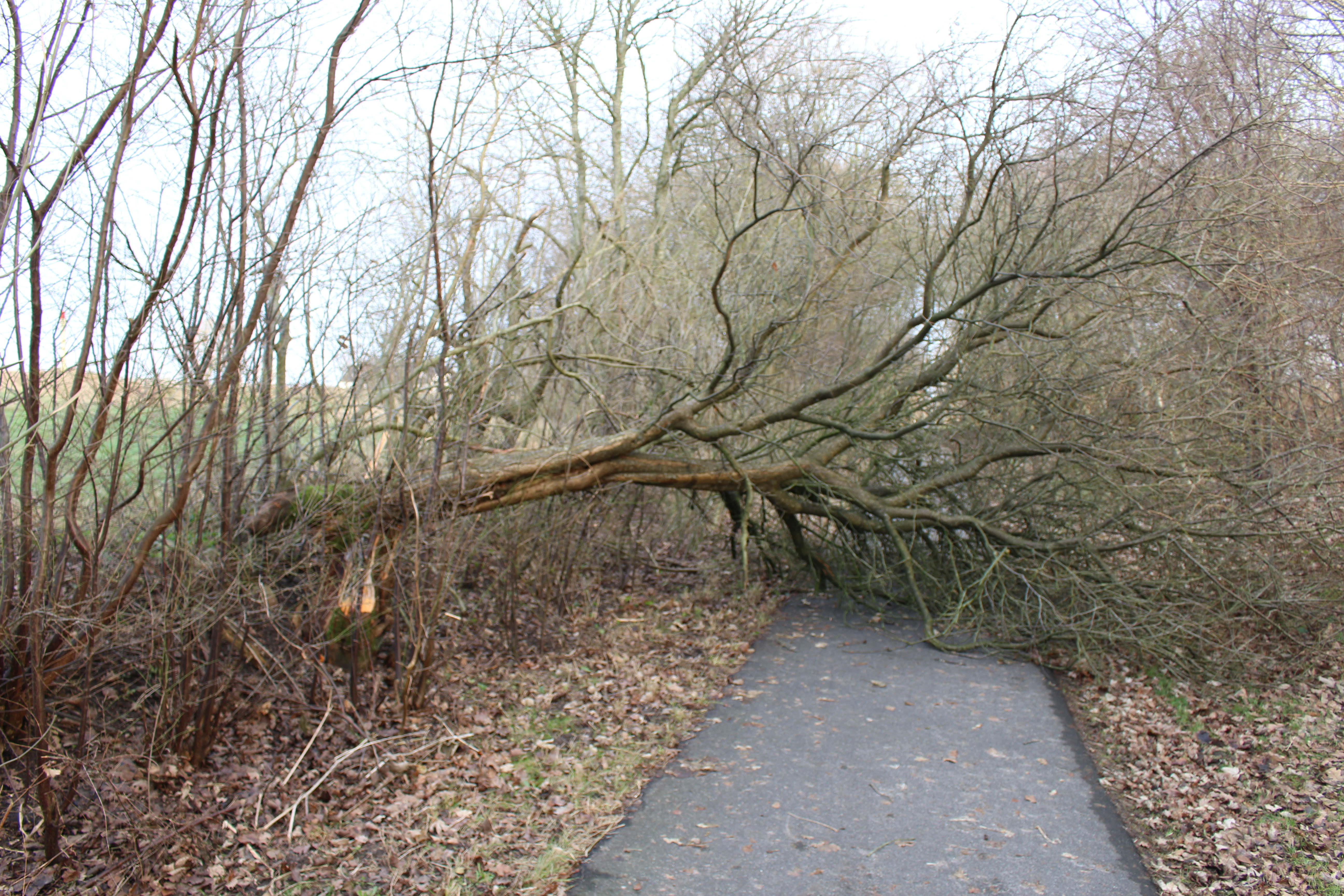 Tree on bike path.